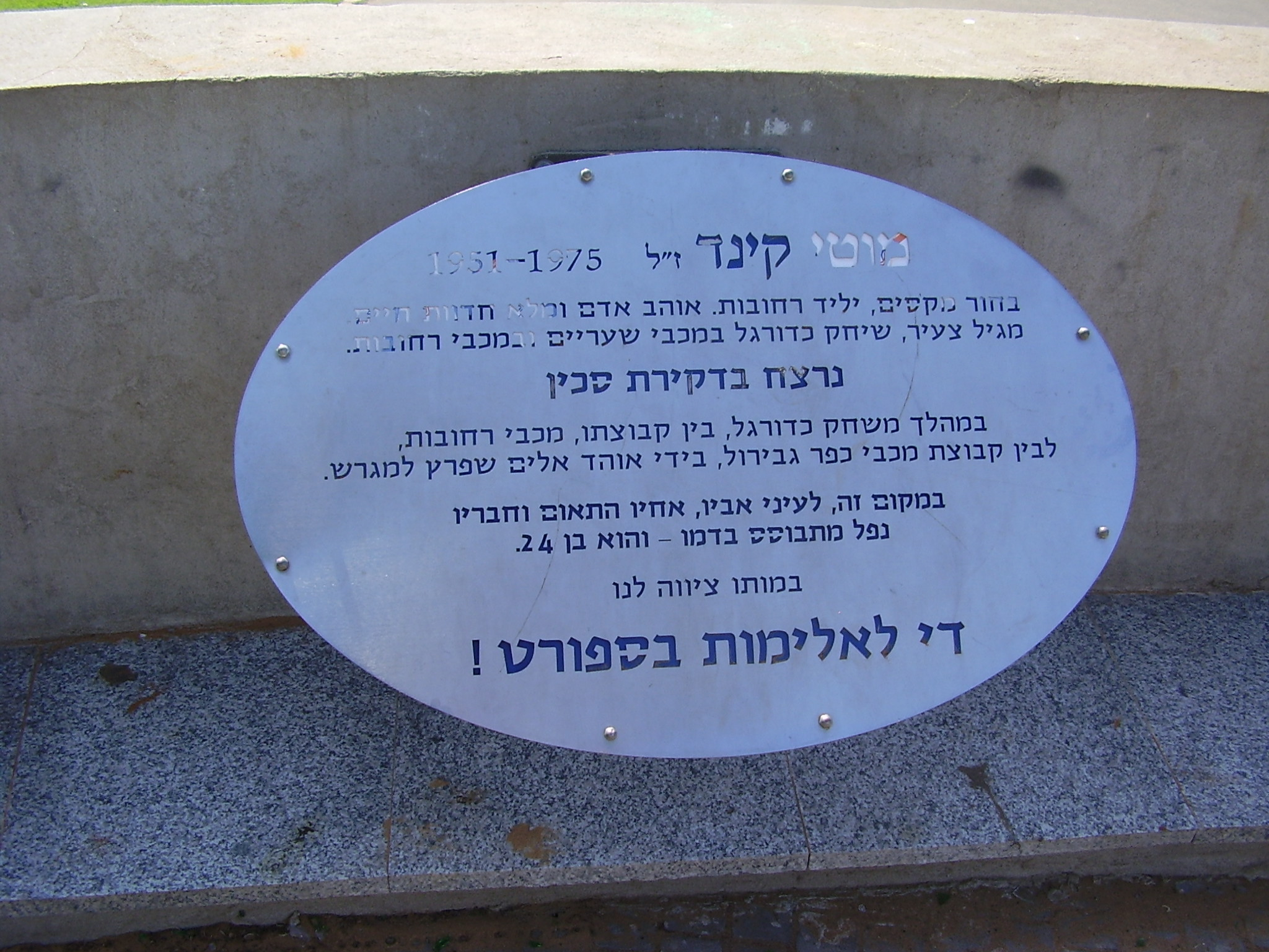 Moti Kind memorial in Rehovot